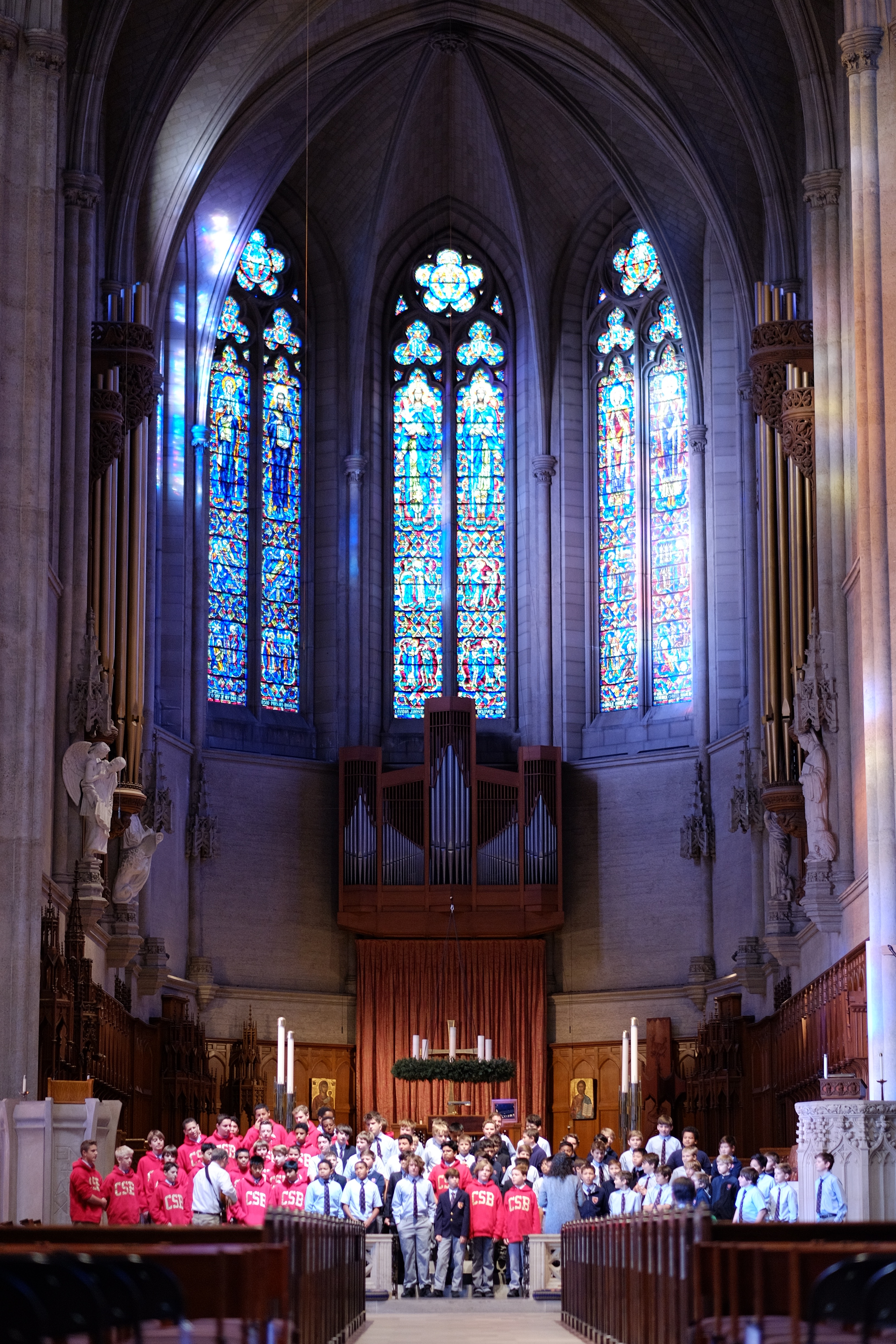 CSB boys practicing for the Lessons and Carols Service